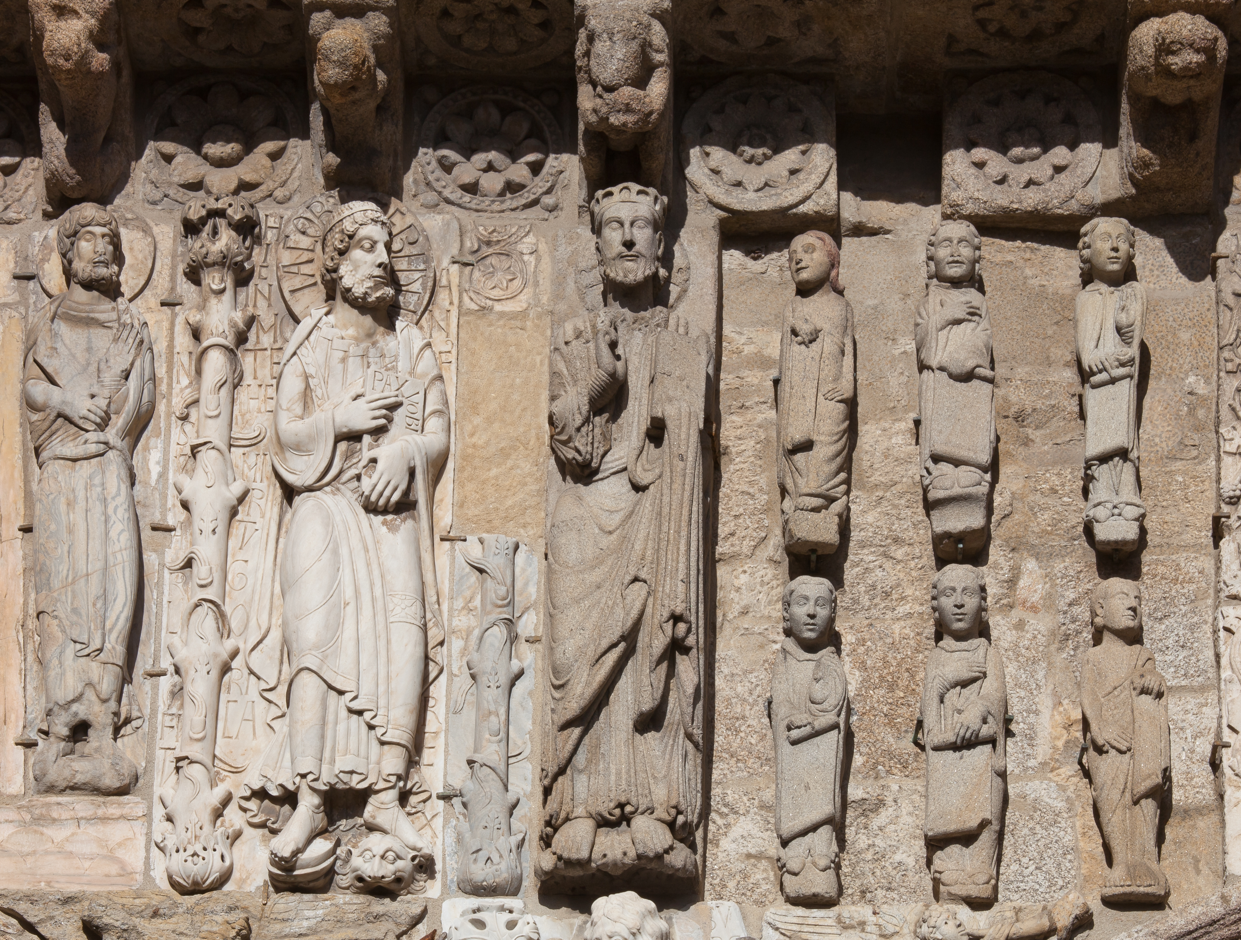 Facade of Praterias square, Cathedral of Santiago de Compostela, Galicia (Spain). Detail. Christ blessing, the Santiago apostle...